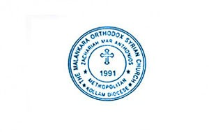 Seal of Kollam Orthodox Diocese